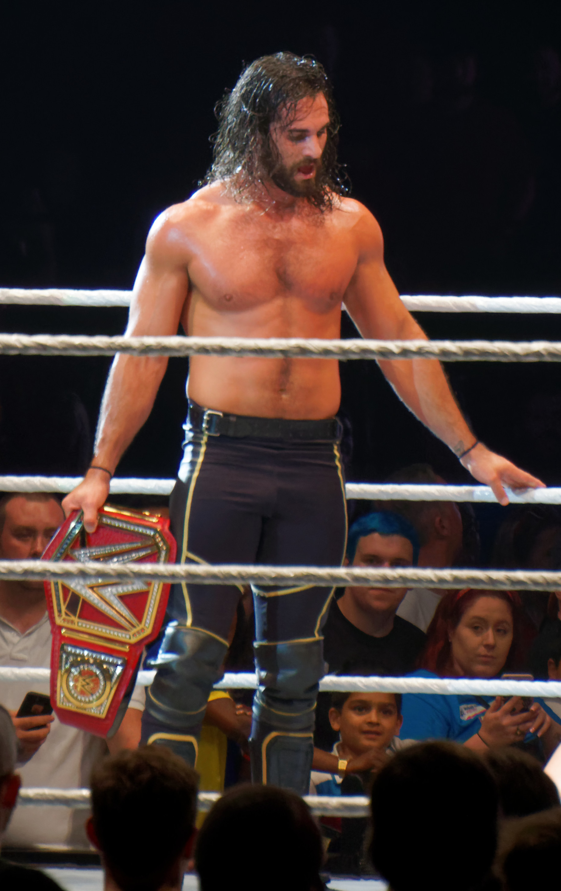 WWE Live returns to London this September Join Roman Reigns, Seth Rollins and more WWE Superstars at the 02 Arena for a one-night-only WWE Live in London on Wednesday, 7 Sept. Kevin Owens (c) def. (pin) Sami Zayn, Seth Rollins Type of match : 3-way Match For : WWE Universal Championship